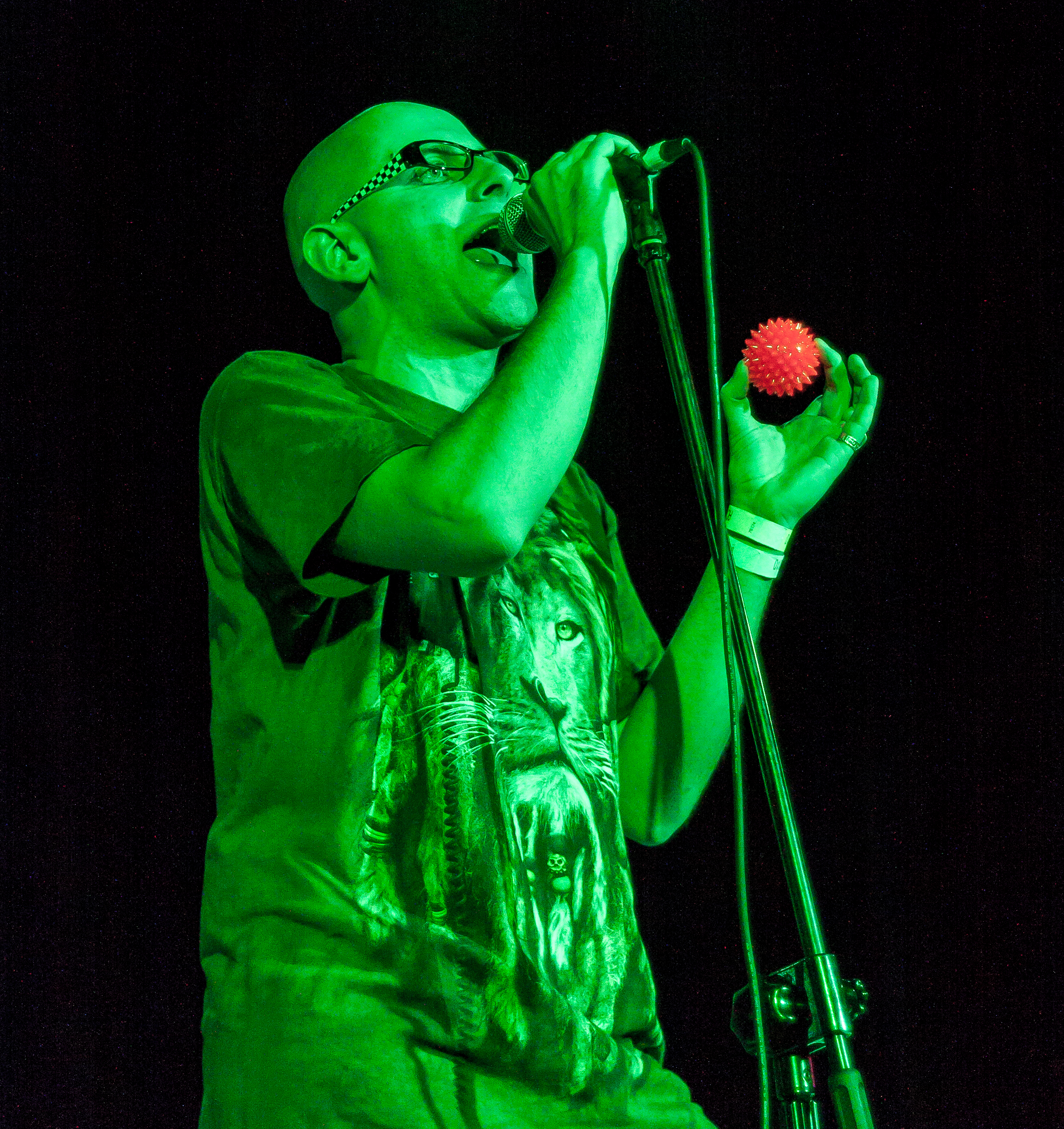 Grupa Millenium podczas festiwalu ACK Electric Nights Festival Progressive Stage w Lublinie (12 listopada 2010).